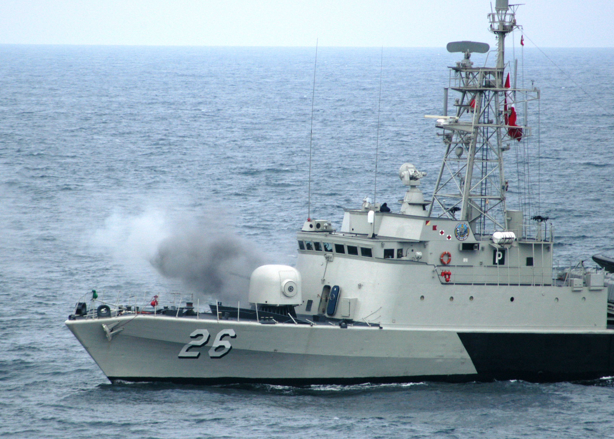 040714-N-0507C-007 Southern Pacific Ocean (July 14, 2004) - The Peruvian fast attack craft Sanchez Carrillon (CM 26) fires at a Ship Deployable Surface Target (SDST), simulating an incoming threat, during a surface gunnery exercise conducted during the UNITAS 45-04 Pacific Phase. Deployed and operated by an Afloat Training Group Detachment embarked aboard USS Thomas S. Gates, the SDTS provides state-of-the-art training for participating forces. Naval forces from Argentina, Chile, Colombia, Ecuador, Peru and observers from Mexico and Canada are participating in UNITAS 45-04, the premier naval exercise in the region, which is conducted under the direction of Commander U.S. Naval Forces Southern Command and hosted this year by the Peruvian Navy. UNITAS is designed to develop interoperability among the participating navies while increasing readiness and providing the training in a high-tech environment.